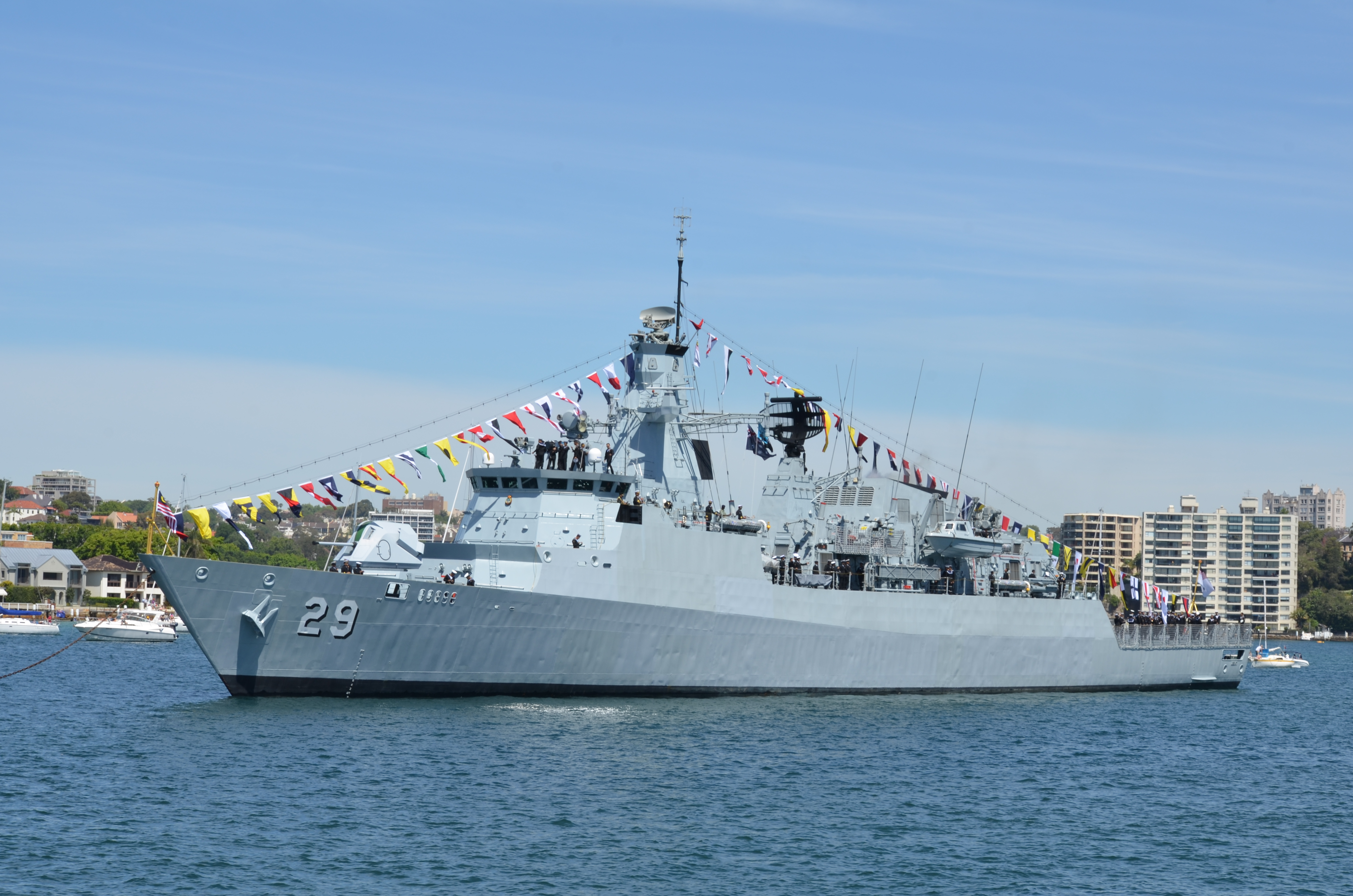 Photographs taken during day 3 of the Royal Australian Navy International Fleet Review 2013.